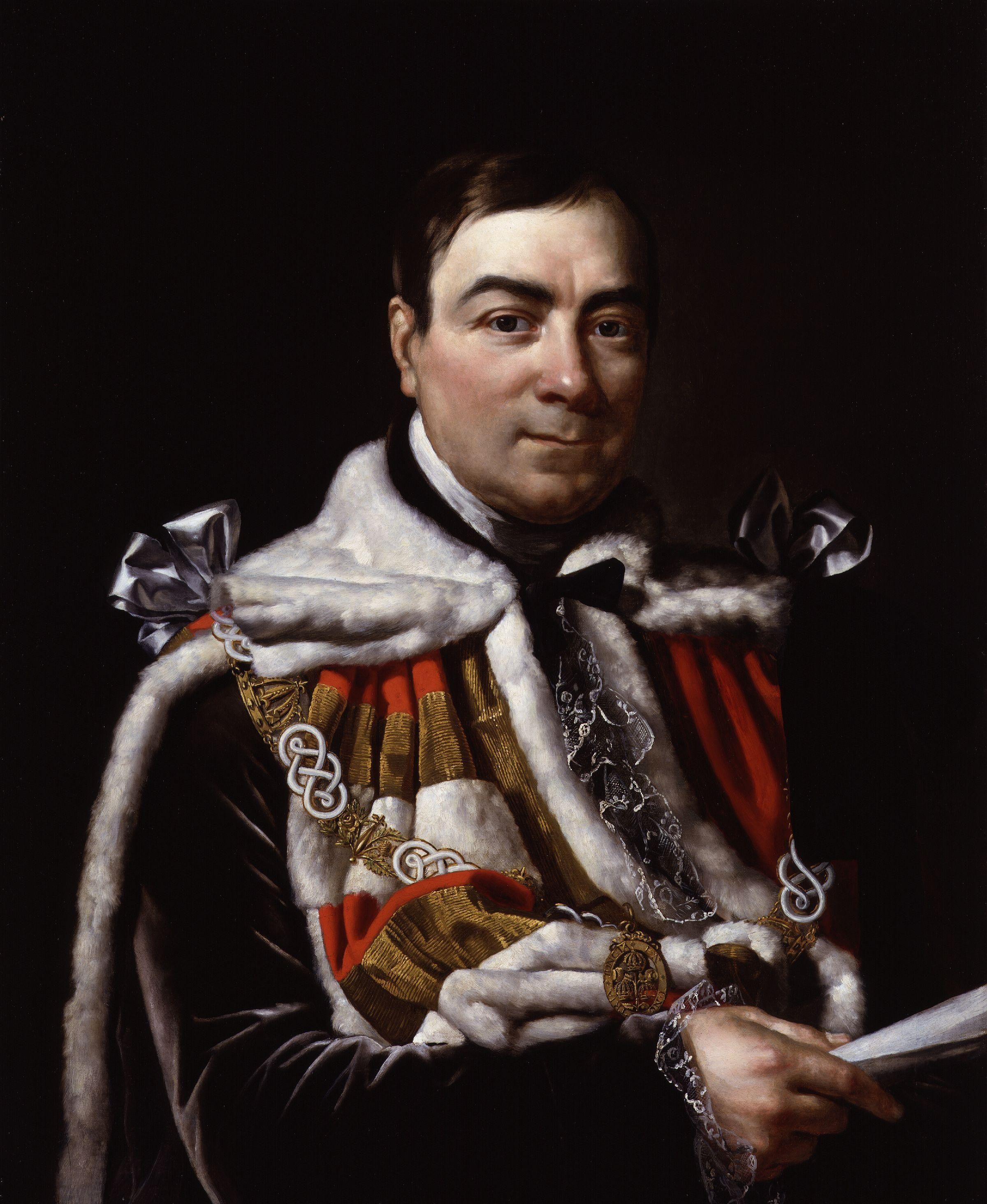 All images in this batch have been confirmed as author died before 1939 according to the official death date listed by the NPG.